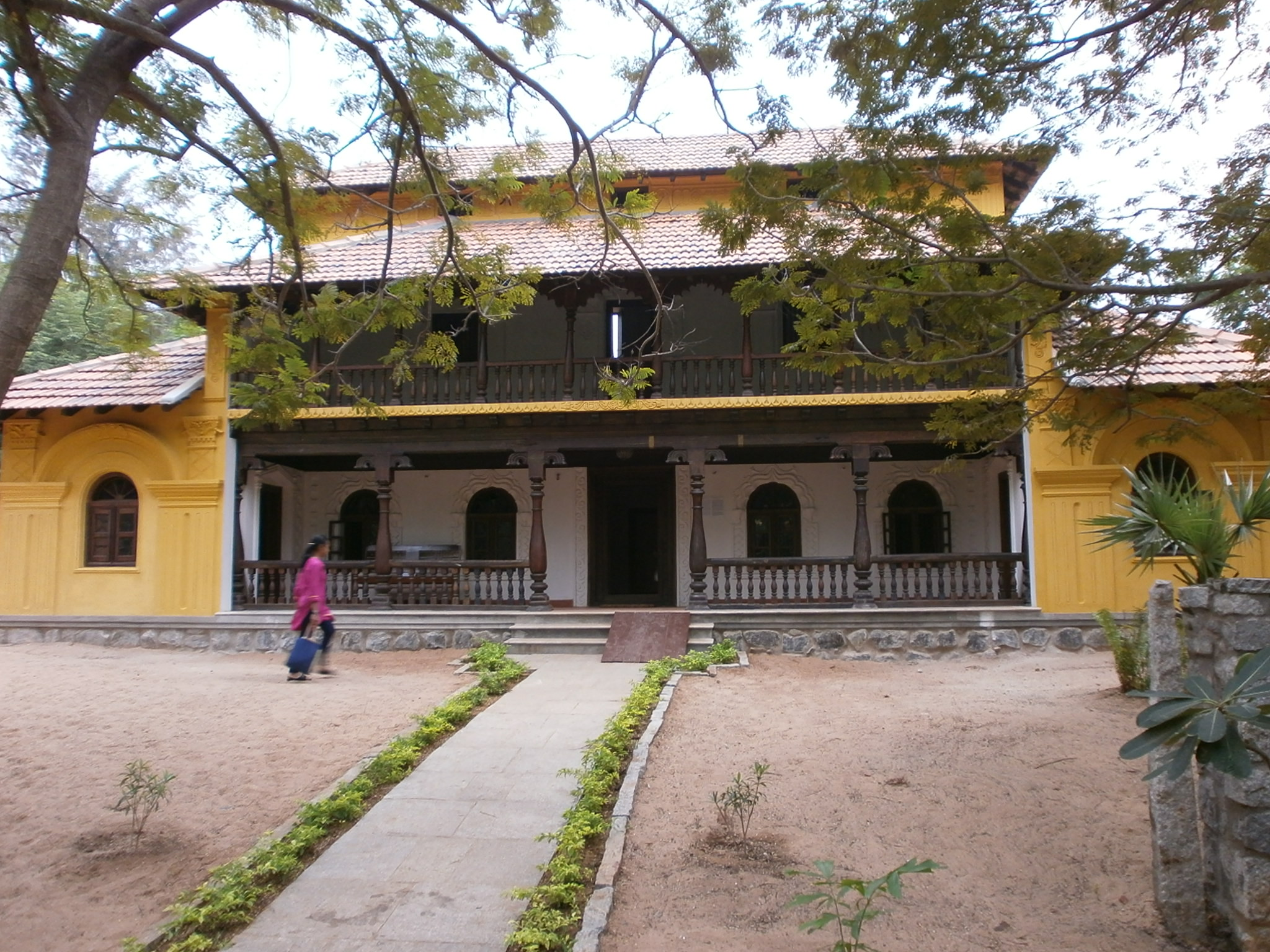 Dakshina-Chitra-Karnataka-House